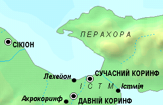 Ancient Corinth and Modern Corinth